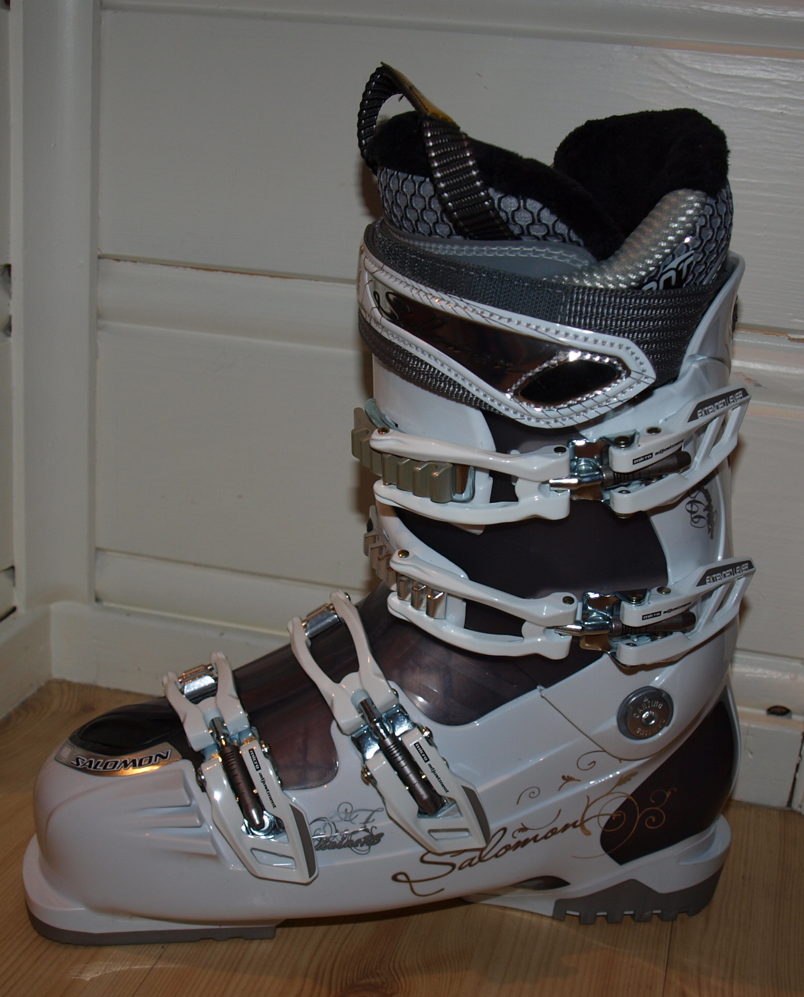 Salomon Divine RS CF alpine boot